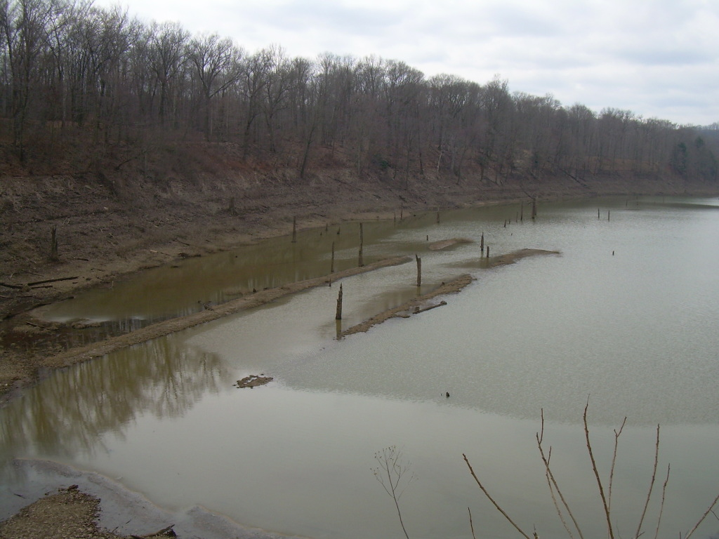 Remnants of the Pennsylvania Mainline Canal in the Conemaugh Reservoir, Livermore, Indiana County, Pennsylvania